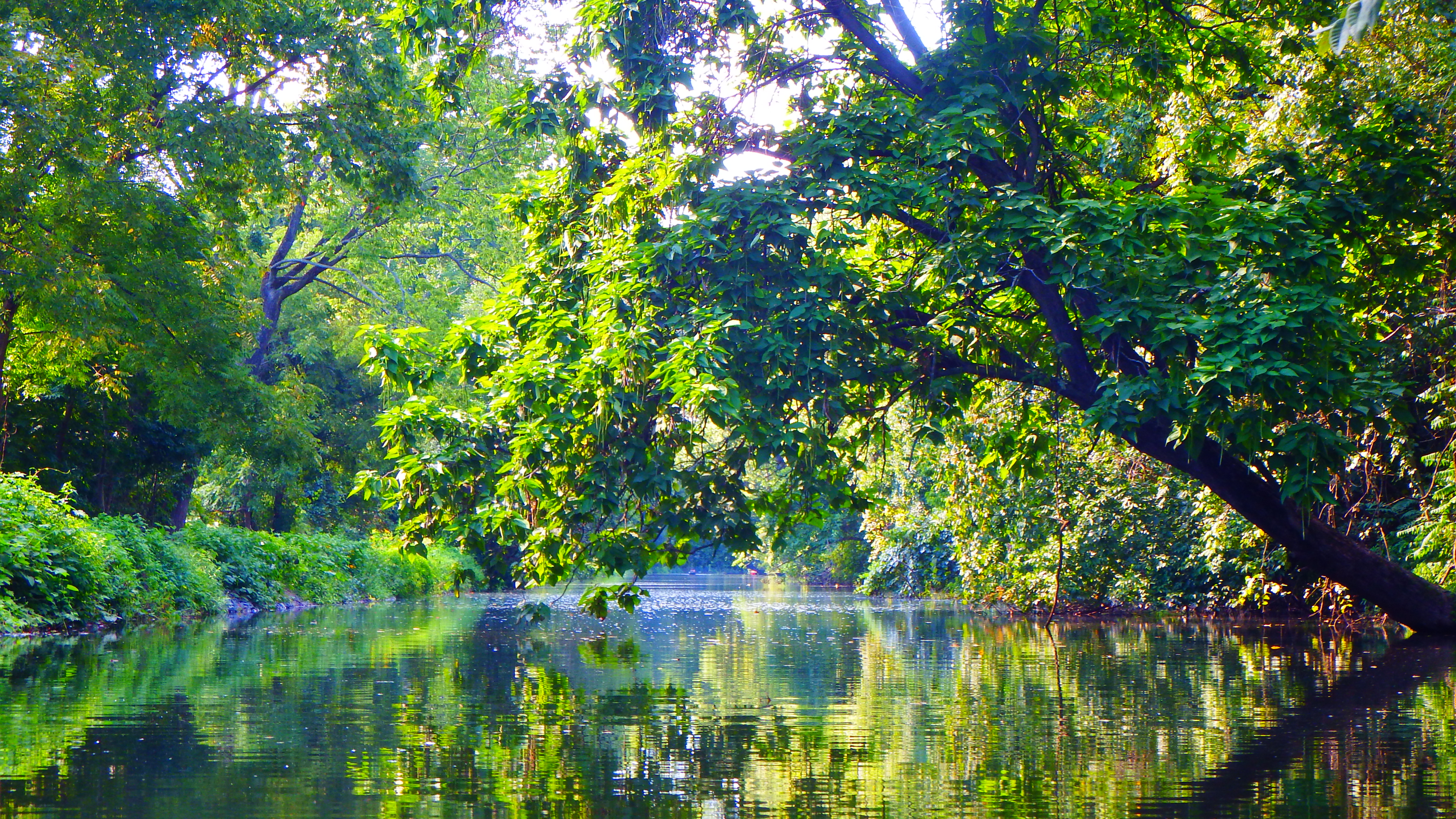 Taken from a kayak near Port Providence, Pennsylvania.